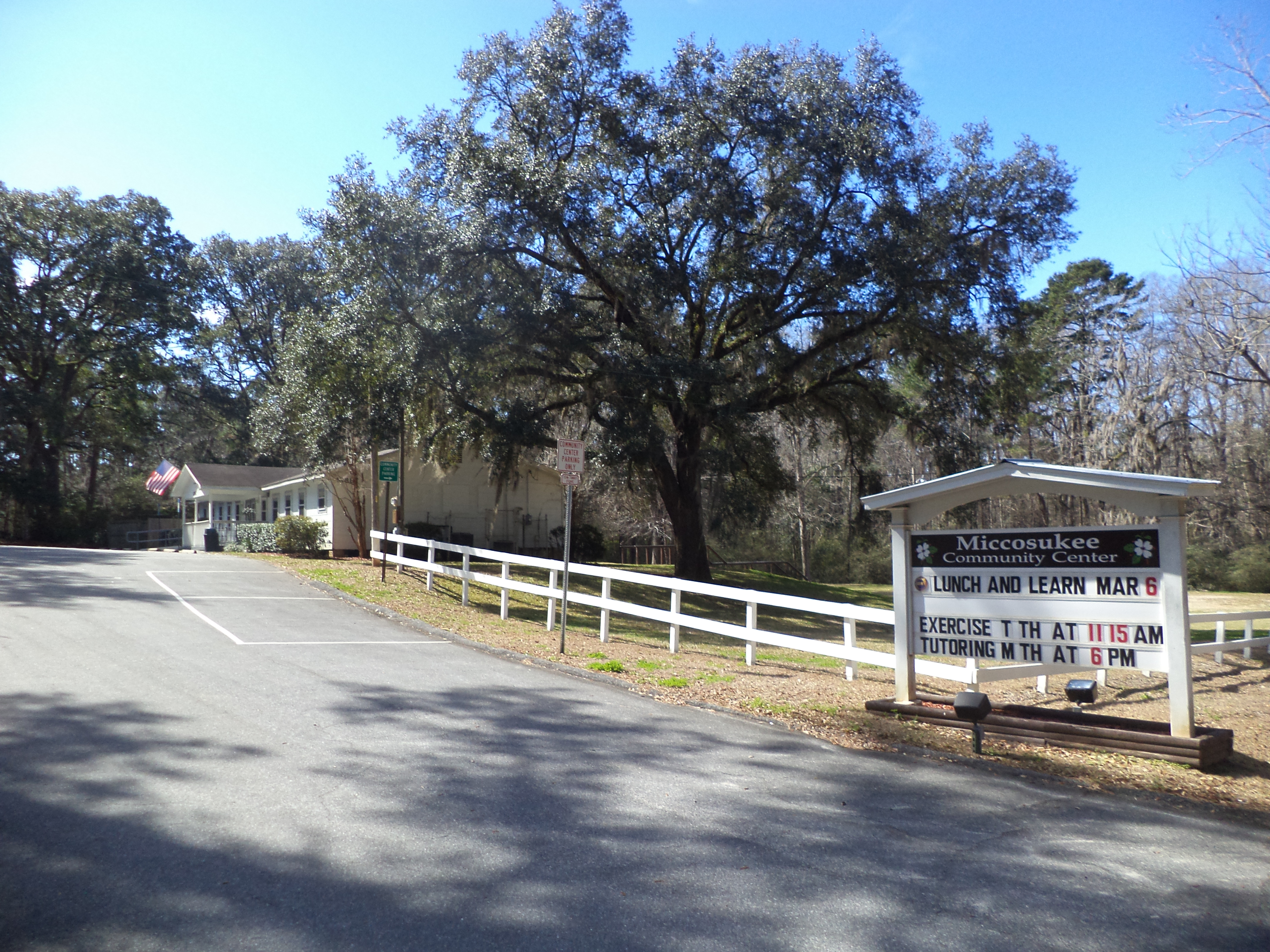 Miccosukee Community Center driveway, 13887 Moccasin Gap Rd, Miccosukee, Leon County, Florida